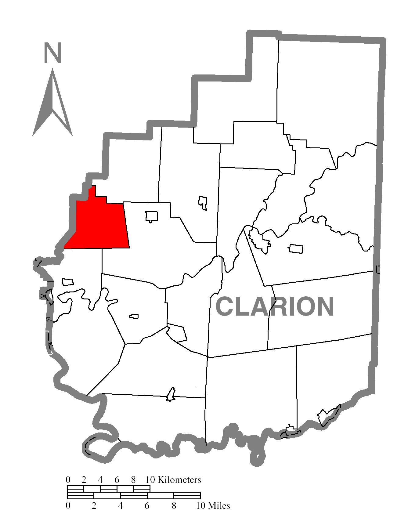 A map of Clarion County showing Salem Township, Pennsylvania (alternate) highlighted on the map.